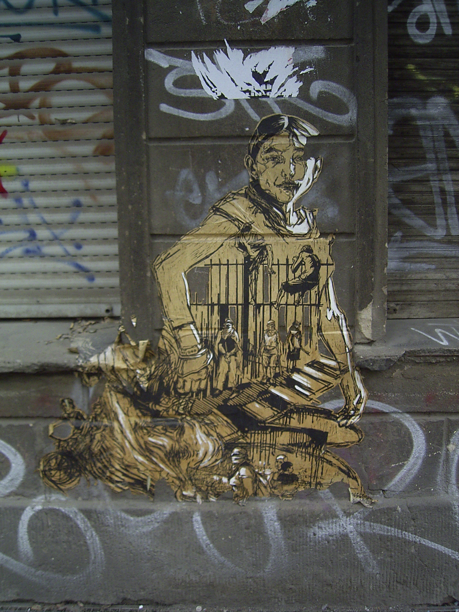 Street art by Swoon, Berlin